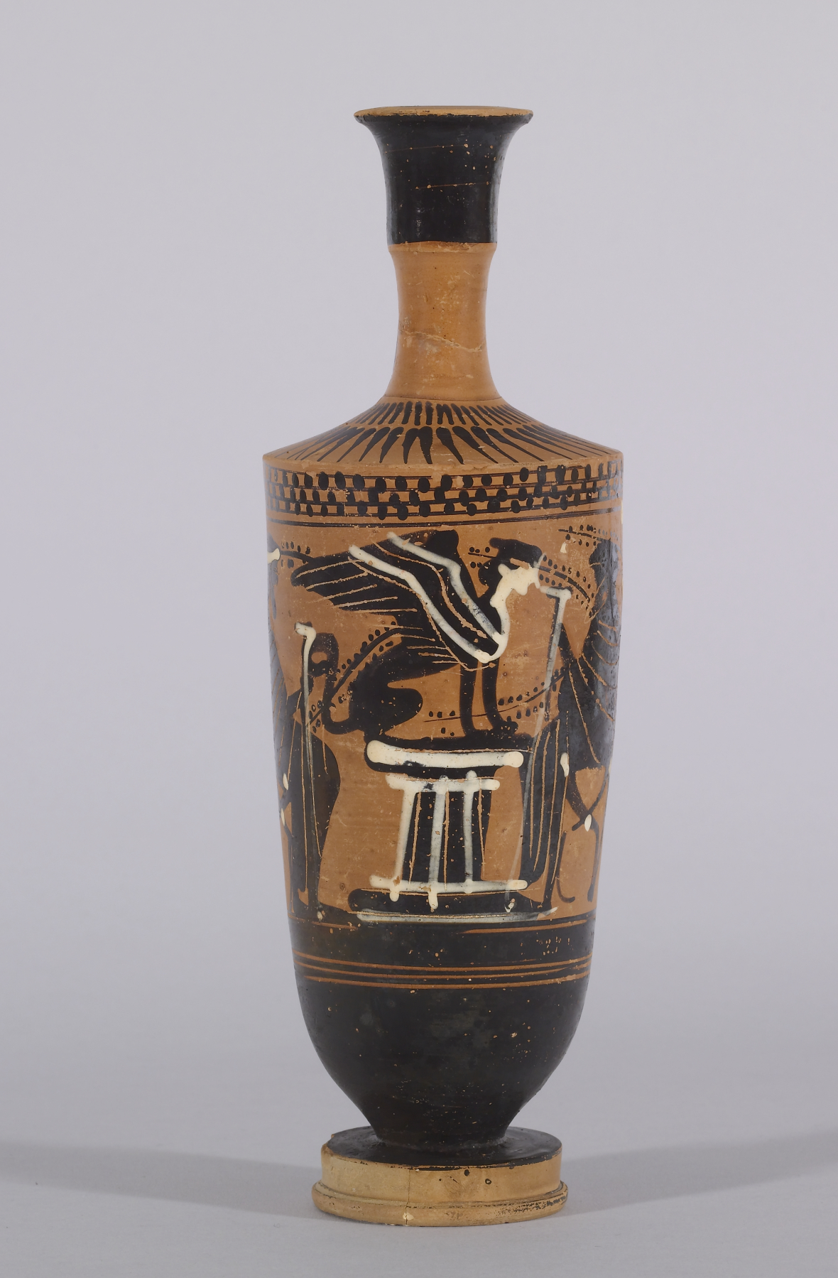 The scene on this black-figure lekythos (a container for oil) depicts an assemblage of four Theban men before the sphinx, pondering her riddle. The Sphinx sits on a column, while two of the men facing her sit on folding stools and two stand upright.